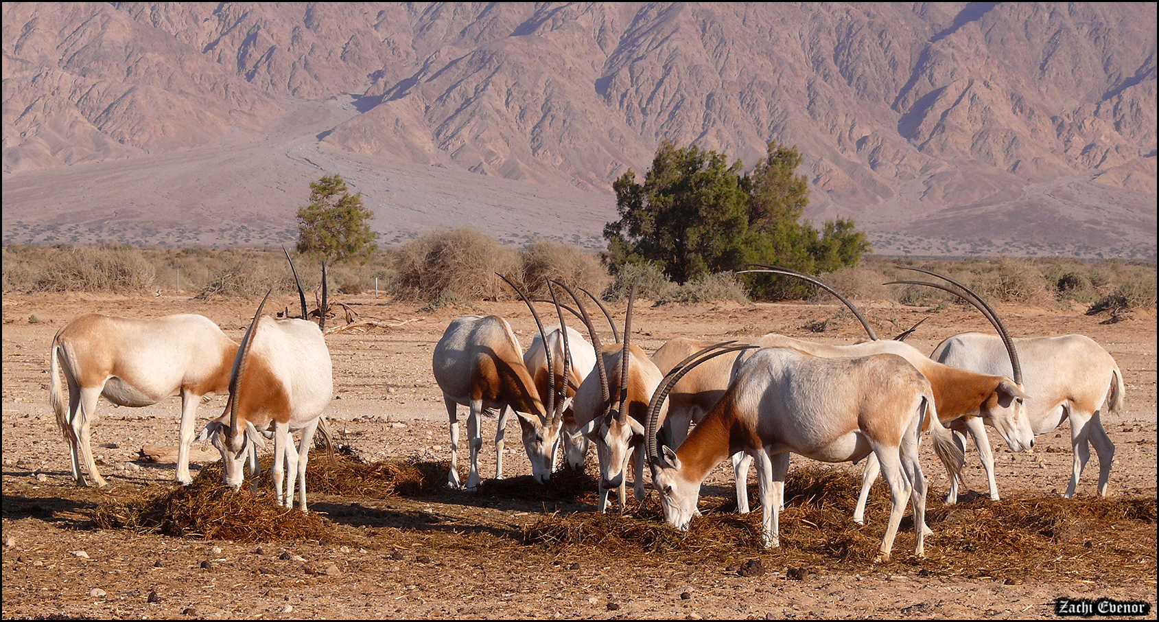 Scimitar Oryx (Oryx dammah), Hai-Bar Yotvata, Israel